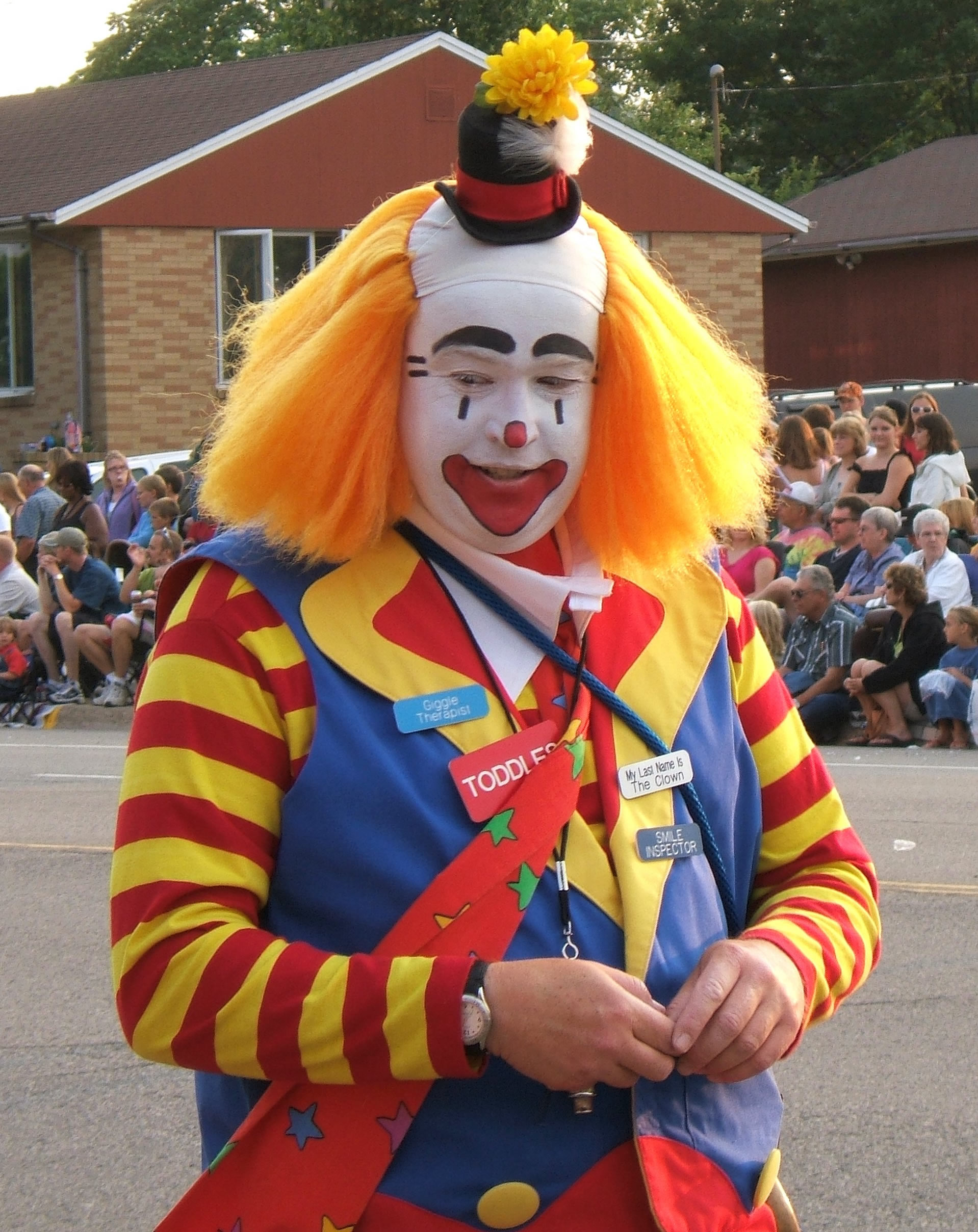 "Toddles the Clown" (Todd Johnson) of Minnesota